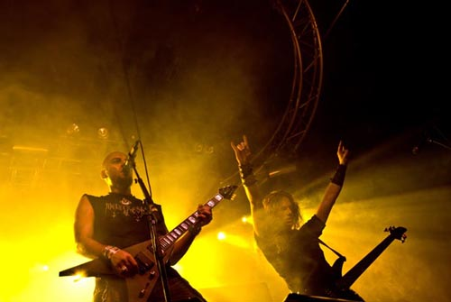 Melechesh, live at Hole In The Sky, Bergen Metal Fest 2007